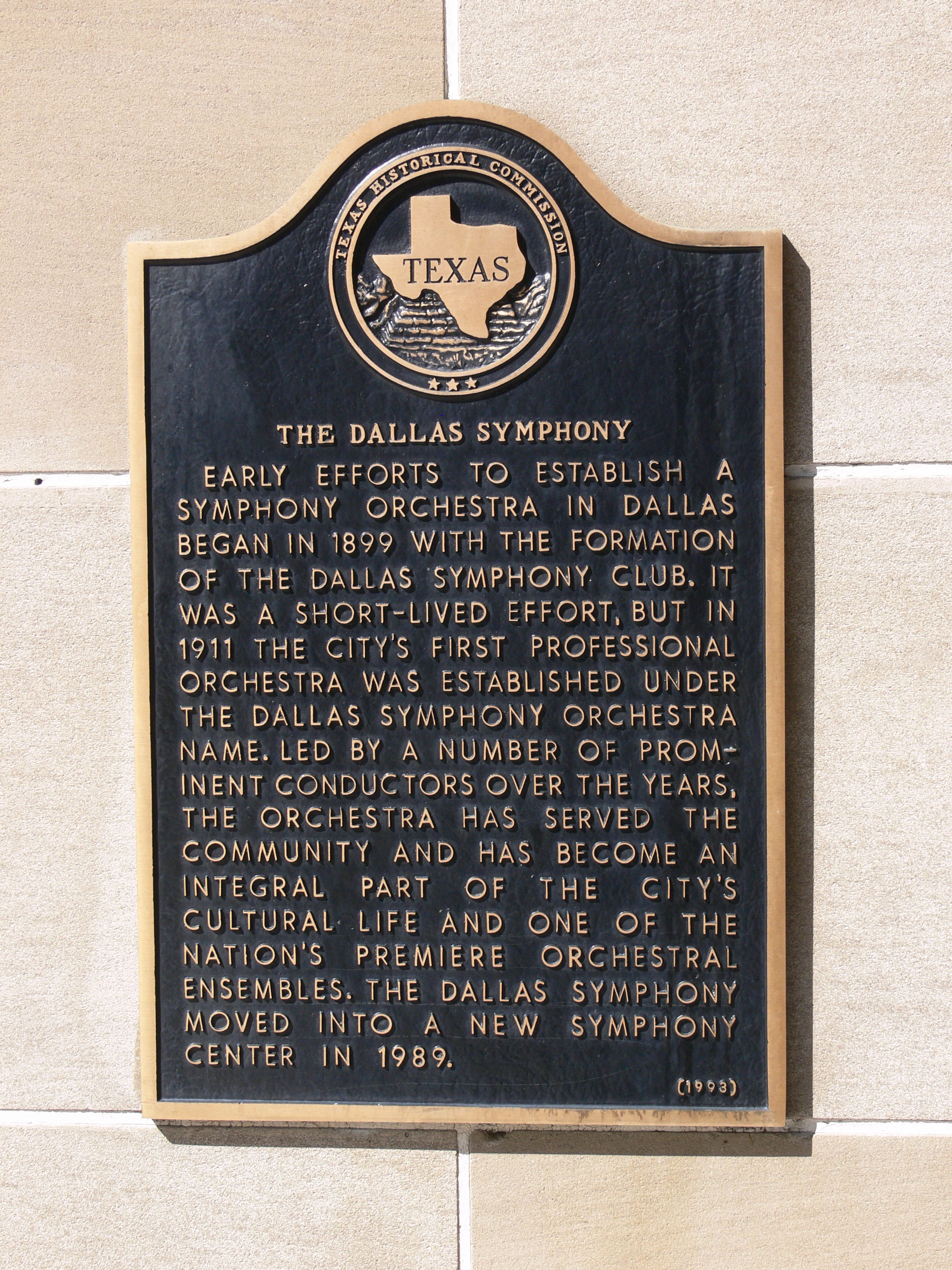 Dallas, Texas: Morton H. Meyerson Symphony Center